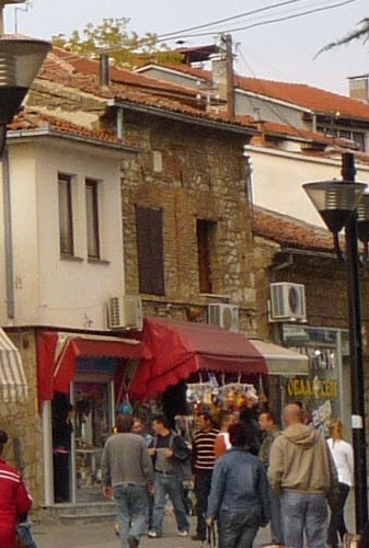 Town of Ohrid